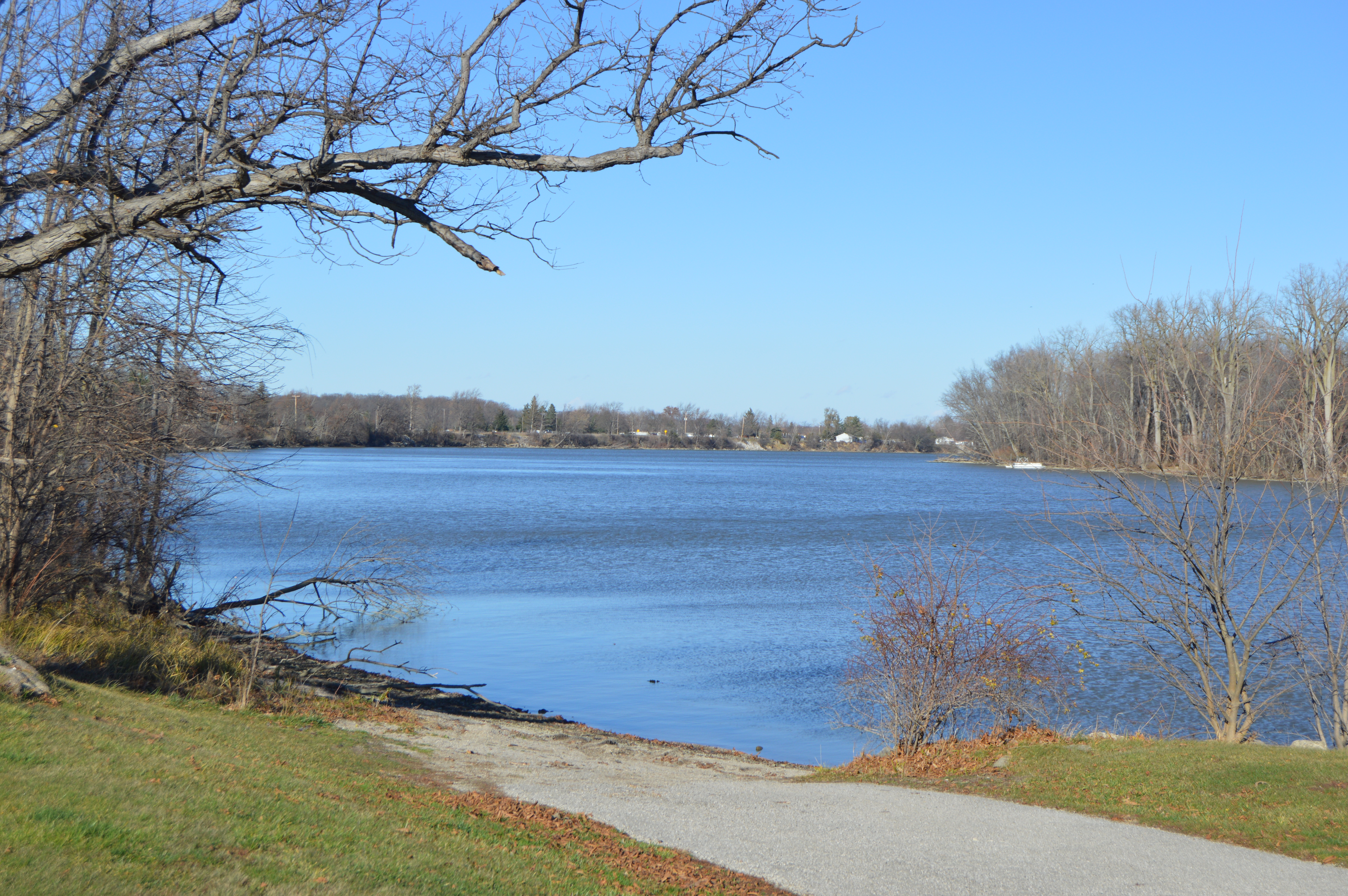 Looking downstream along the Auglaize River from a boat landing near the bridge that carries State Route 637 over the river east of Junction in Auglaize Township, Defiance County, Ohio, United States.